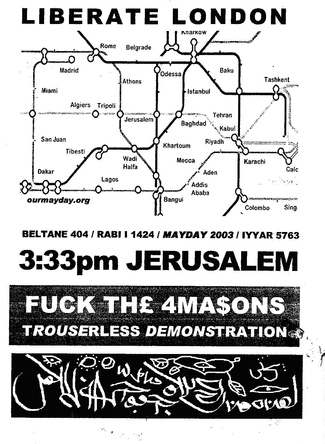 evol psychogeographic